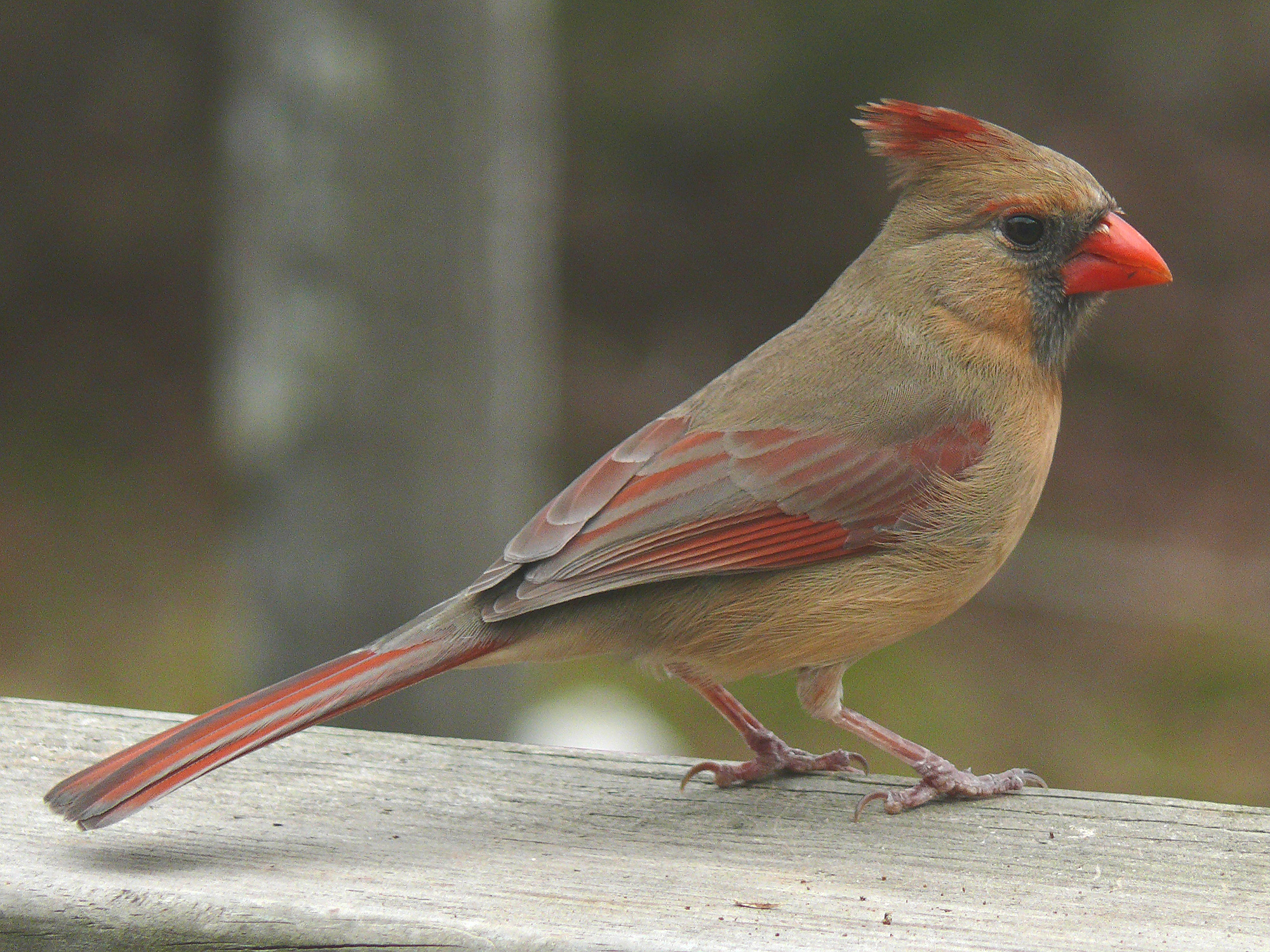 A female Northern Cardinal (Cardinalis cardinalis) on a wooden rail. Photo taken with a Panasonic Lumix DMC-FZ50 in Johnston County, North Carolina, USA.